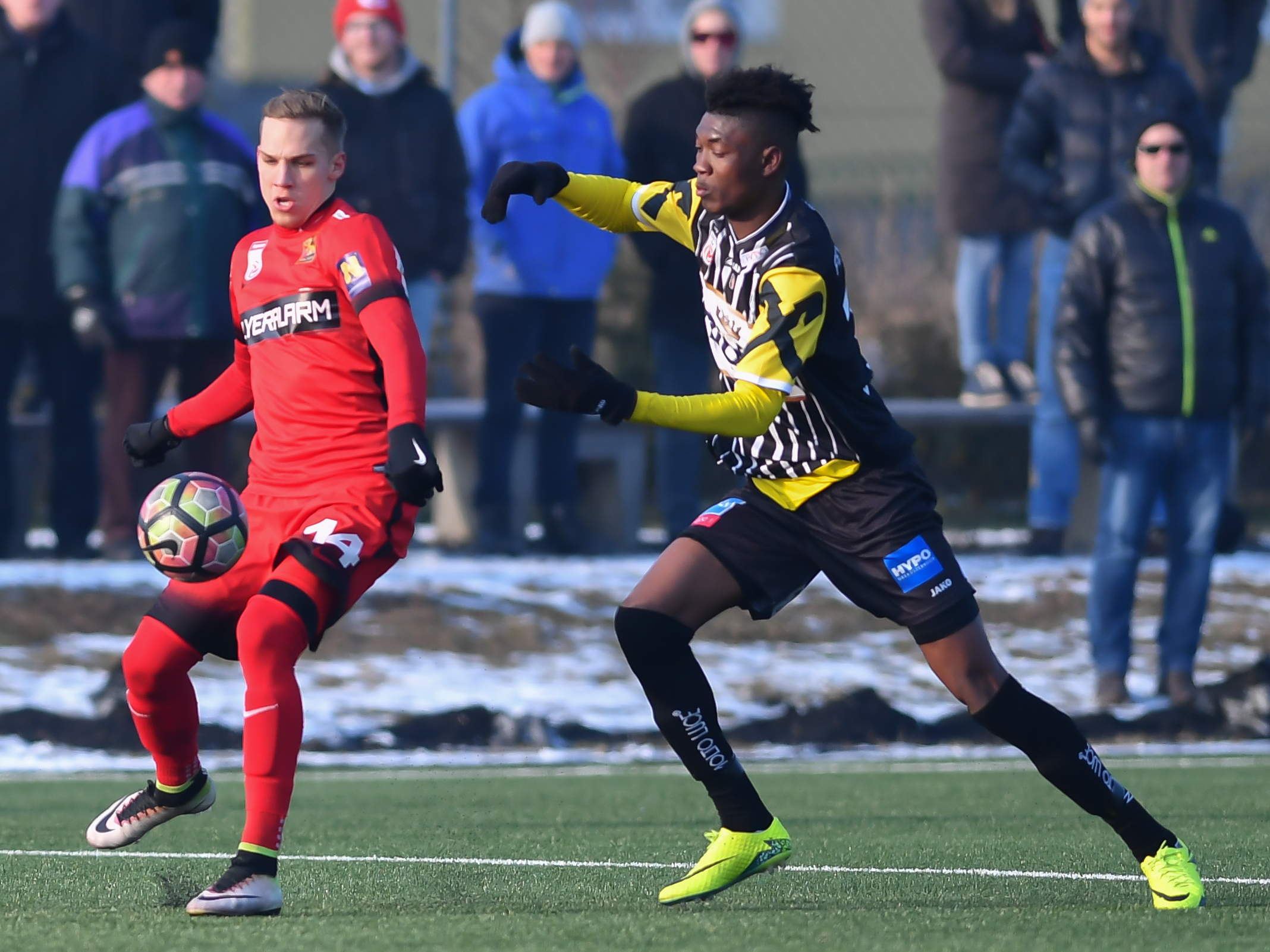 20/1/2017 Preparation match - FC Admira Wacker Moedling vs LASK Linz.